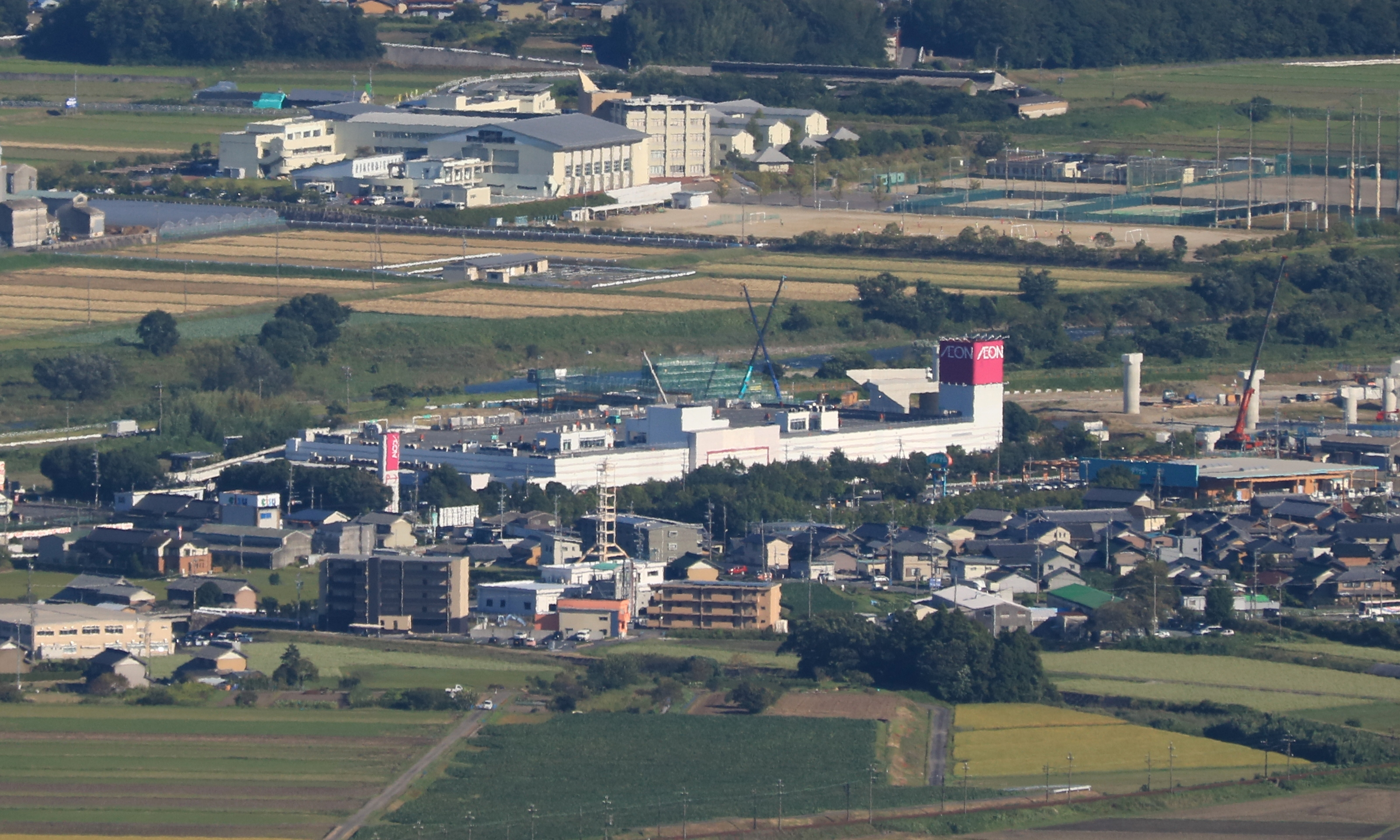 Green Plaza Daian (AEON Daian) seen from Mount Fujiwara (Suzuka Mountains) in Inabe, Mie Prefecture, Japan.